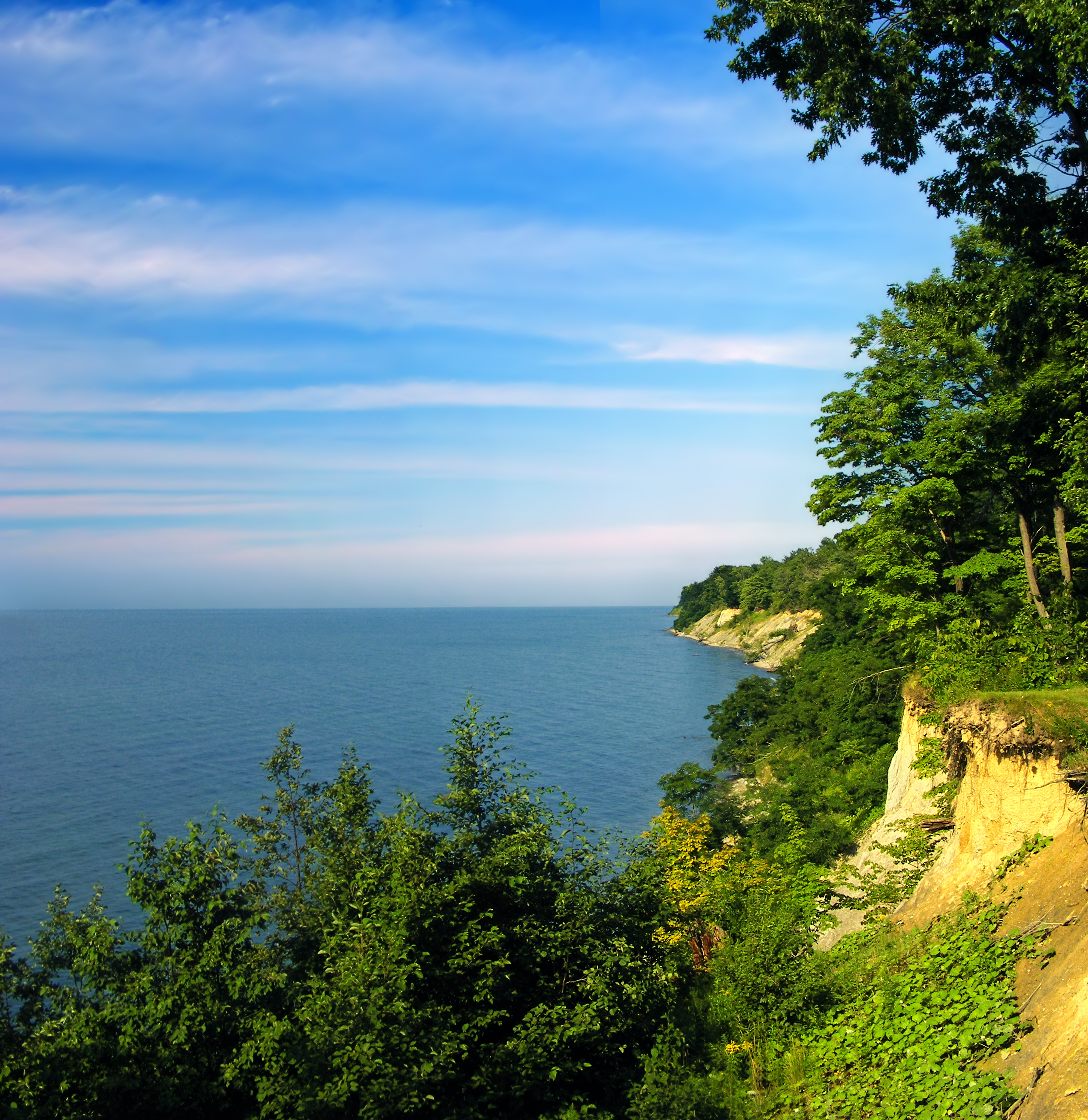 Lake Erie bluffs, David M. Roderick Wildlife Reserve, Erie County. State Game Land 314, along with a new state park, protects much of the shoreline west of Erie to the Ohio line. More information here .